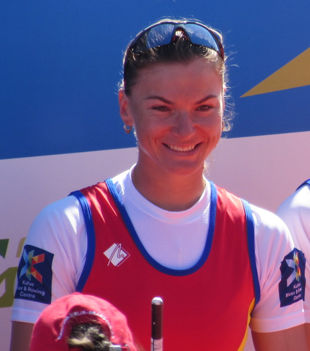 Laura Oprea at the 2016 European Rowing Championships in Brandenburg an der Havel, Germany